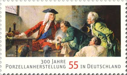 Stamp from Deutsche Post AG from 2010, 300th anniversary of porcelain manufacture in Germany